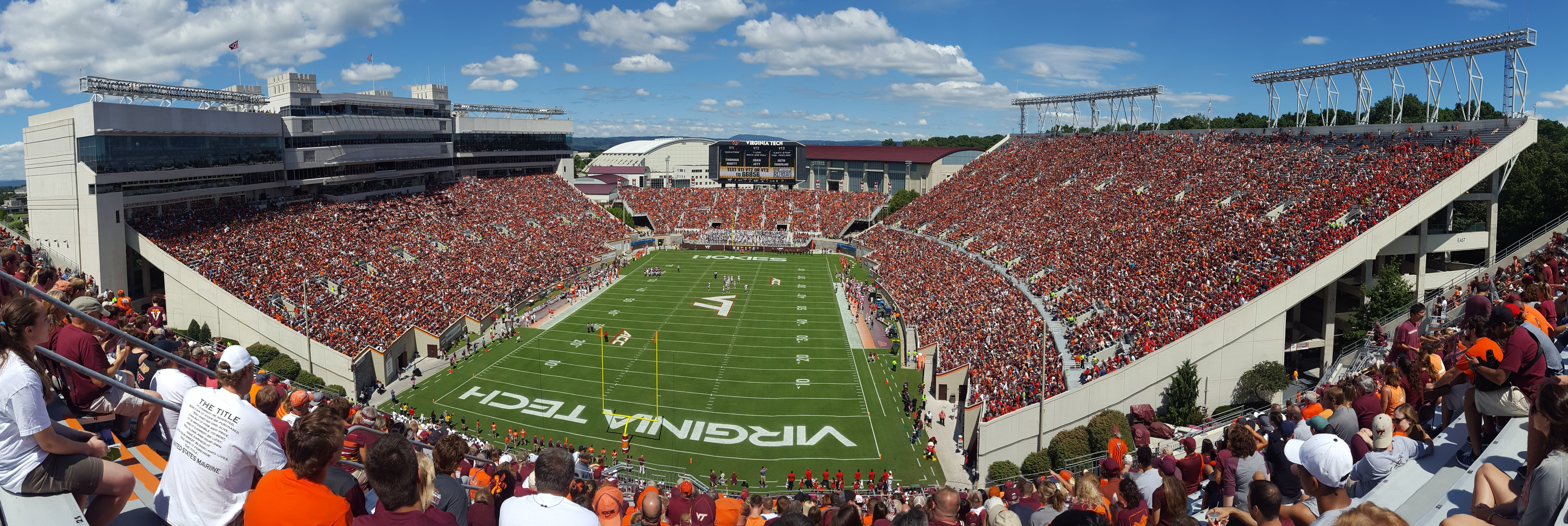 Lane Stadium panoramic, taken at Virginia Tech's 2016 game against Liberty University